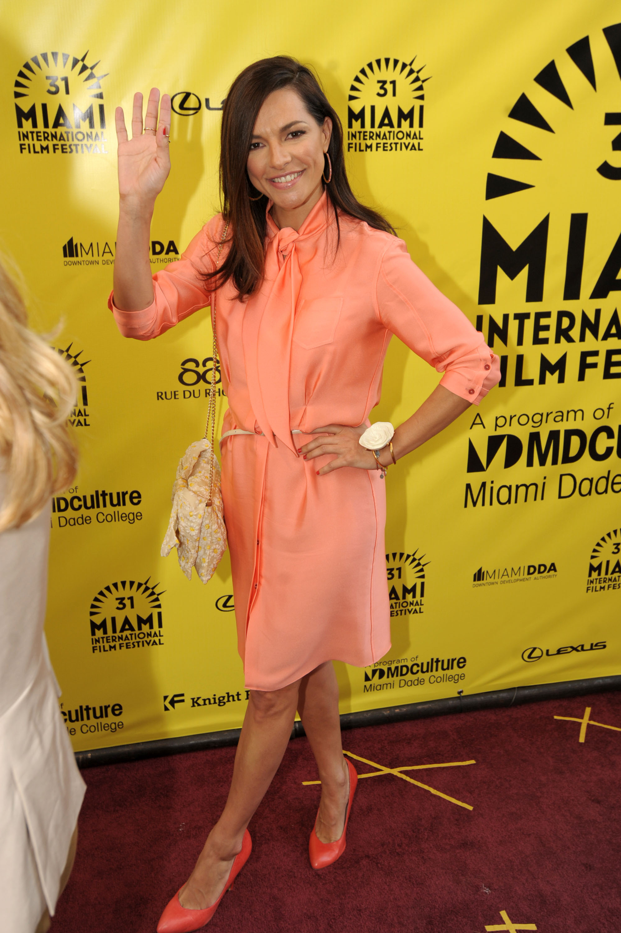 Candela Ferro at the 2014 Miami International Film Festival presentation of "An Unbreakable bond" Photo by: World Red Eye